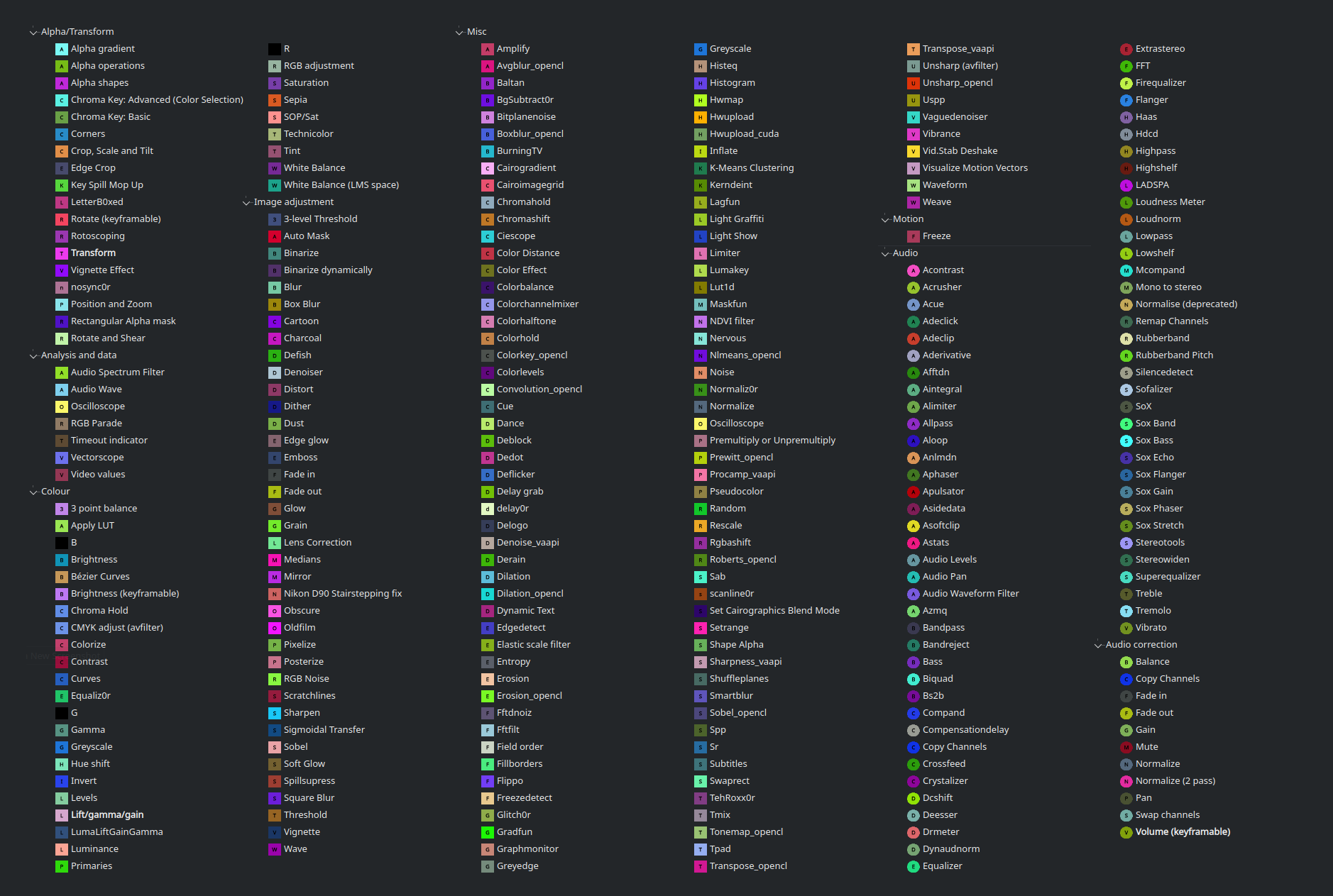 All the available video and audio effects in Kdenlive 20.04.1